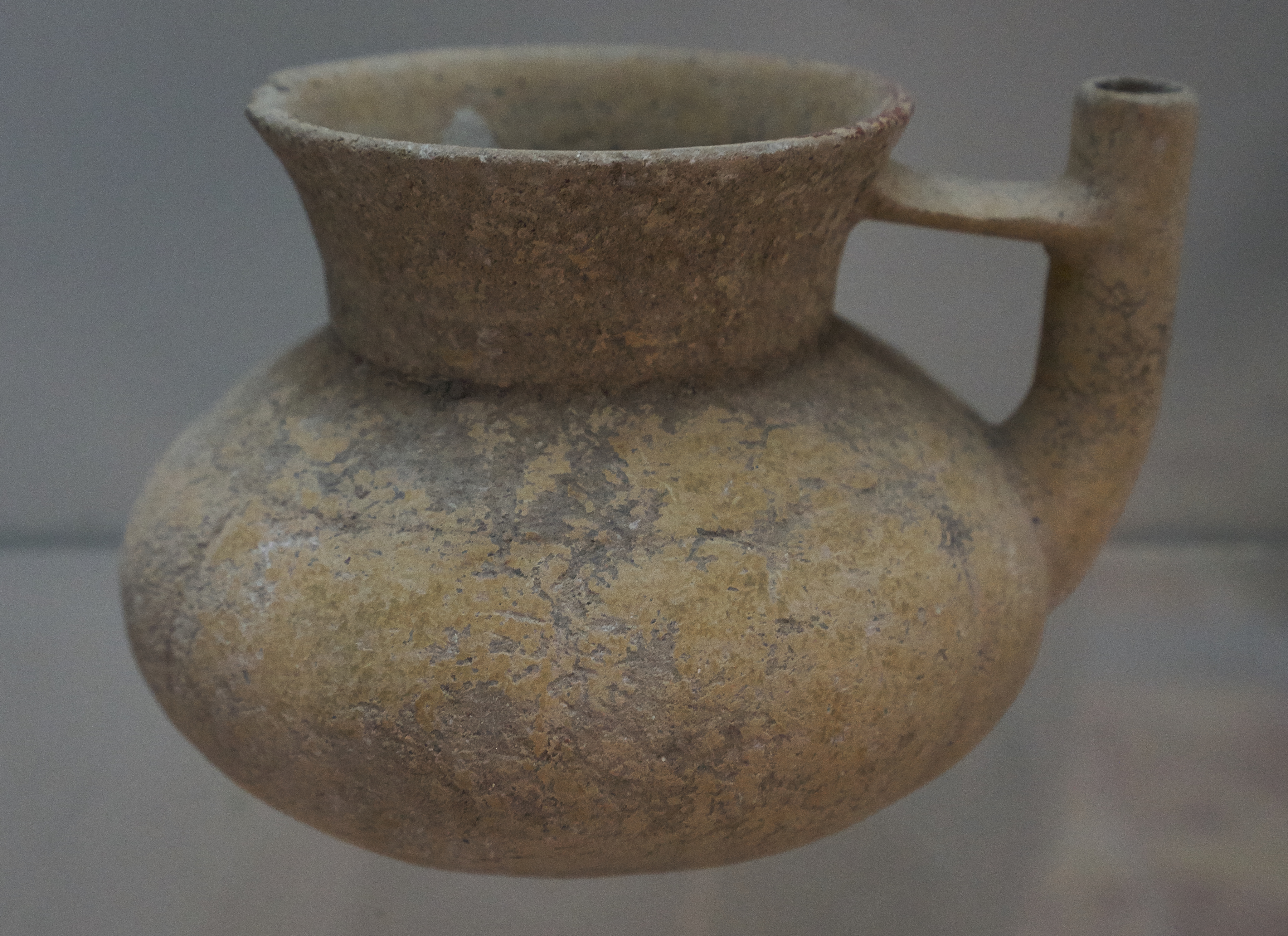 800-100 B.C., Chocolate Pot, Exhibit in the Visitors Centre of Cahal Pech - Archaeological site, San Ignacio, Belize The making of this document was supported by the Community-Budget of Wikimedia Germany.